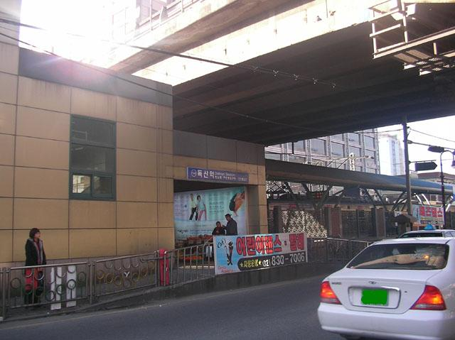 Doksan_Station, Geumcheon District, Seoul, South Korea